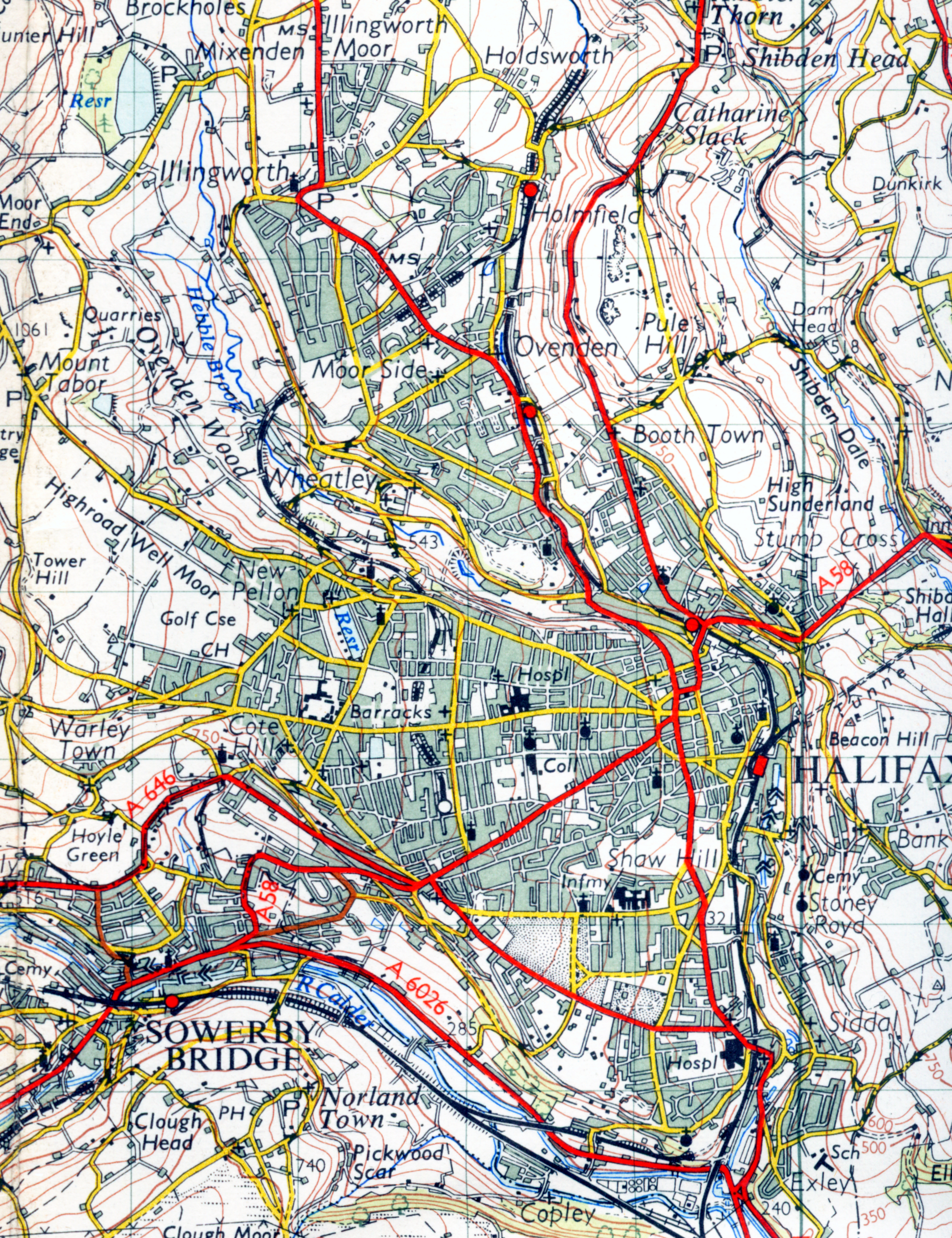 Map of Halifax from 1954. Scale 1 inch to the mile 600DPI Sheet 102 "Huddersfield" series 7